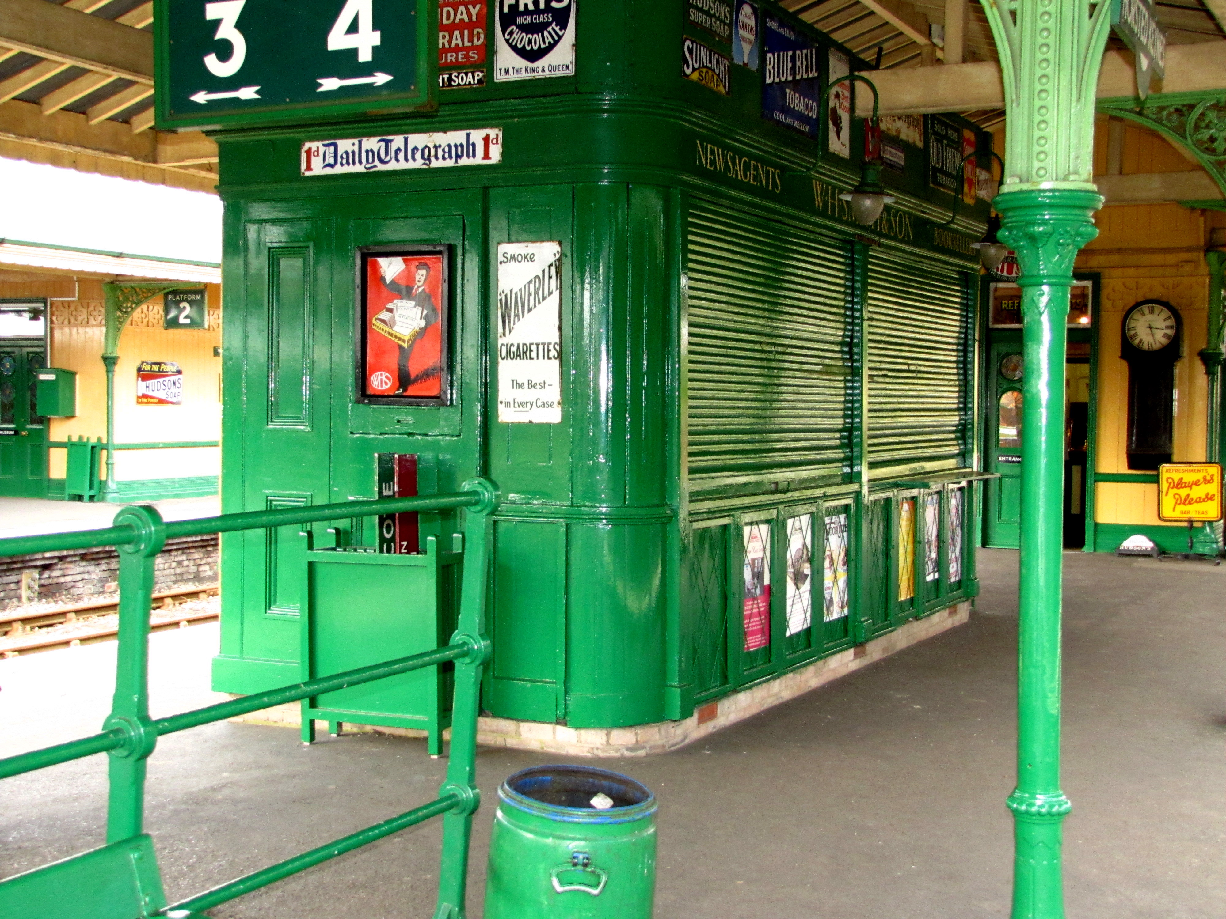 wonderfully preserved W H Smiths stall on the Bluebell Line